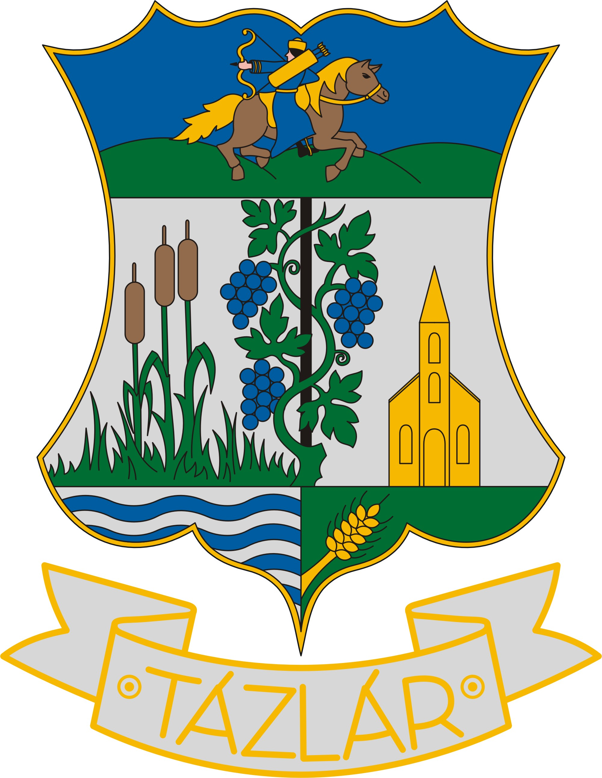 Coat of arms of Tázlár, Hungary